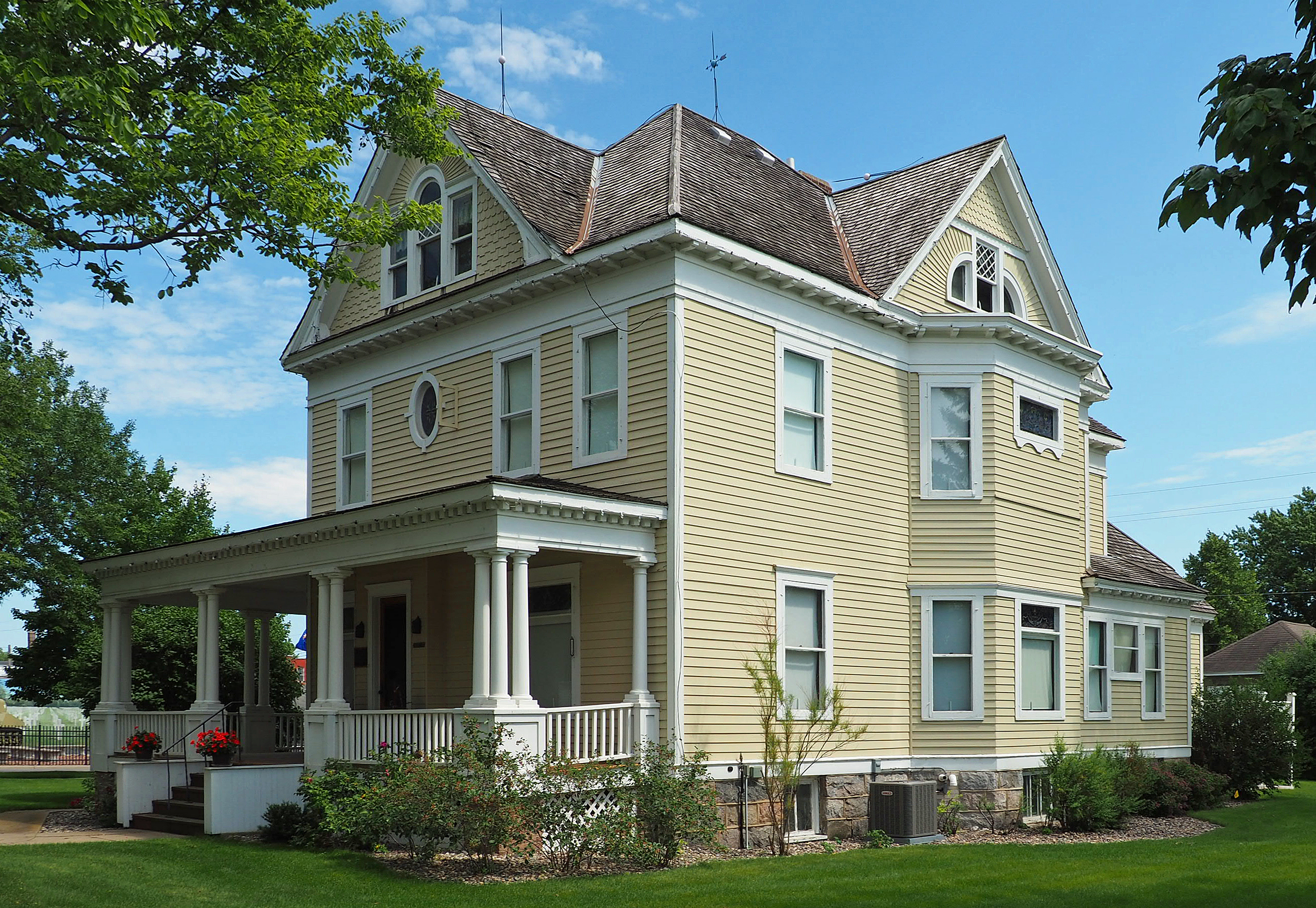 Dr. George R. Christie House, 15 1st St S, Long Prairie, Minnesota, USA. Viewed from the northwest.